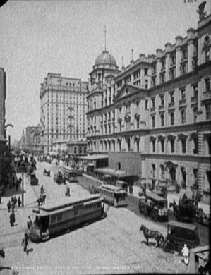 The exterior of Grand Central Station (now Grand Central Terminal) in New York City c. 1904. Also visible is the Hotel Manhattan.